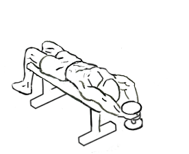 an exercise of triceps